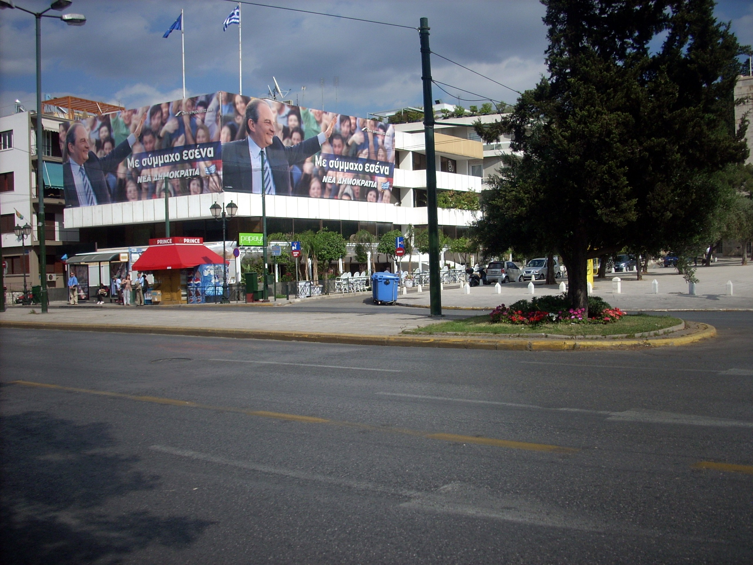 Vassileos Konstandinou Street (Athens, Greece)